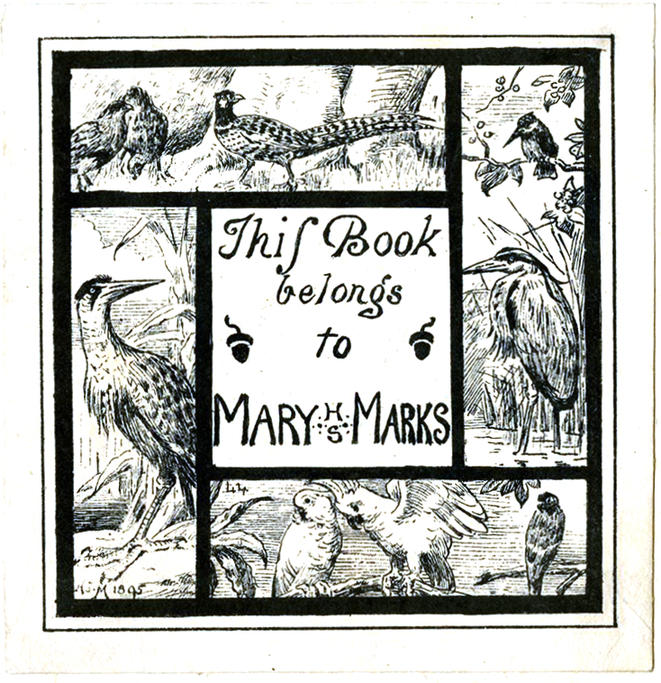 Pictorial Bookplates. Subject: Birds. Subject - Personal Name: Marks, Mary H S.